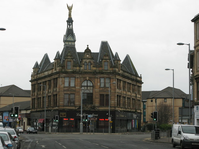 The Angel Building Named after its crowning glory, the Gilded Angel, the building stands at the fork where Paisley Road (A8) in the foreground splits into Paisley Road West (A8) to the left and Govan Road to the right. The ground floor, once a gents outfitters, Ogg Bros, is now an Italian restaurant, La Fiorentina. The Angel itself, Category B listed, of which very little is known of its origin, was extensively restored in the 1990s.